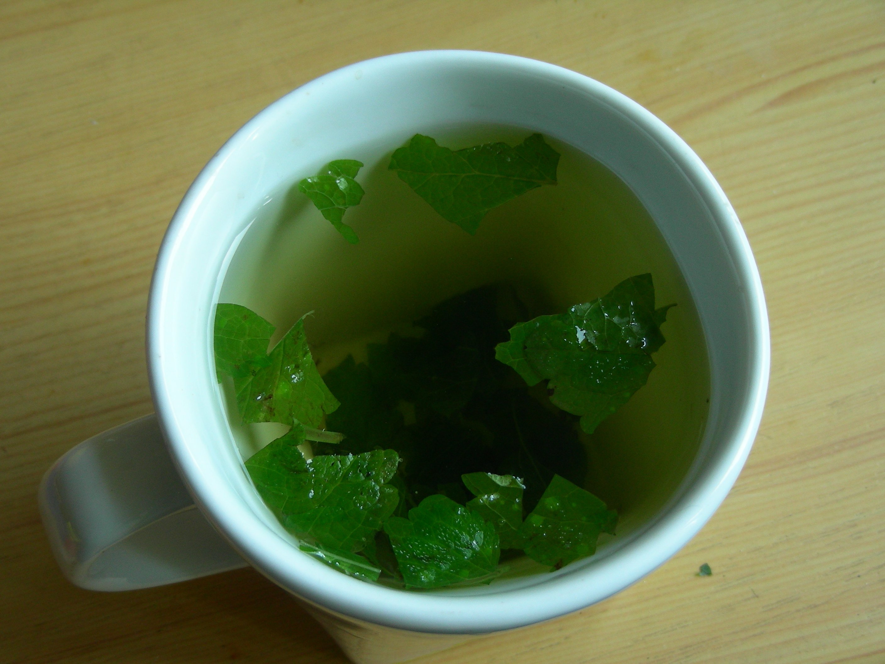 Lemon balm herbal tea